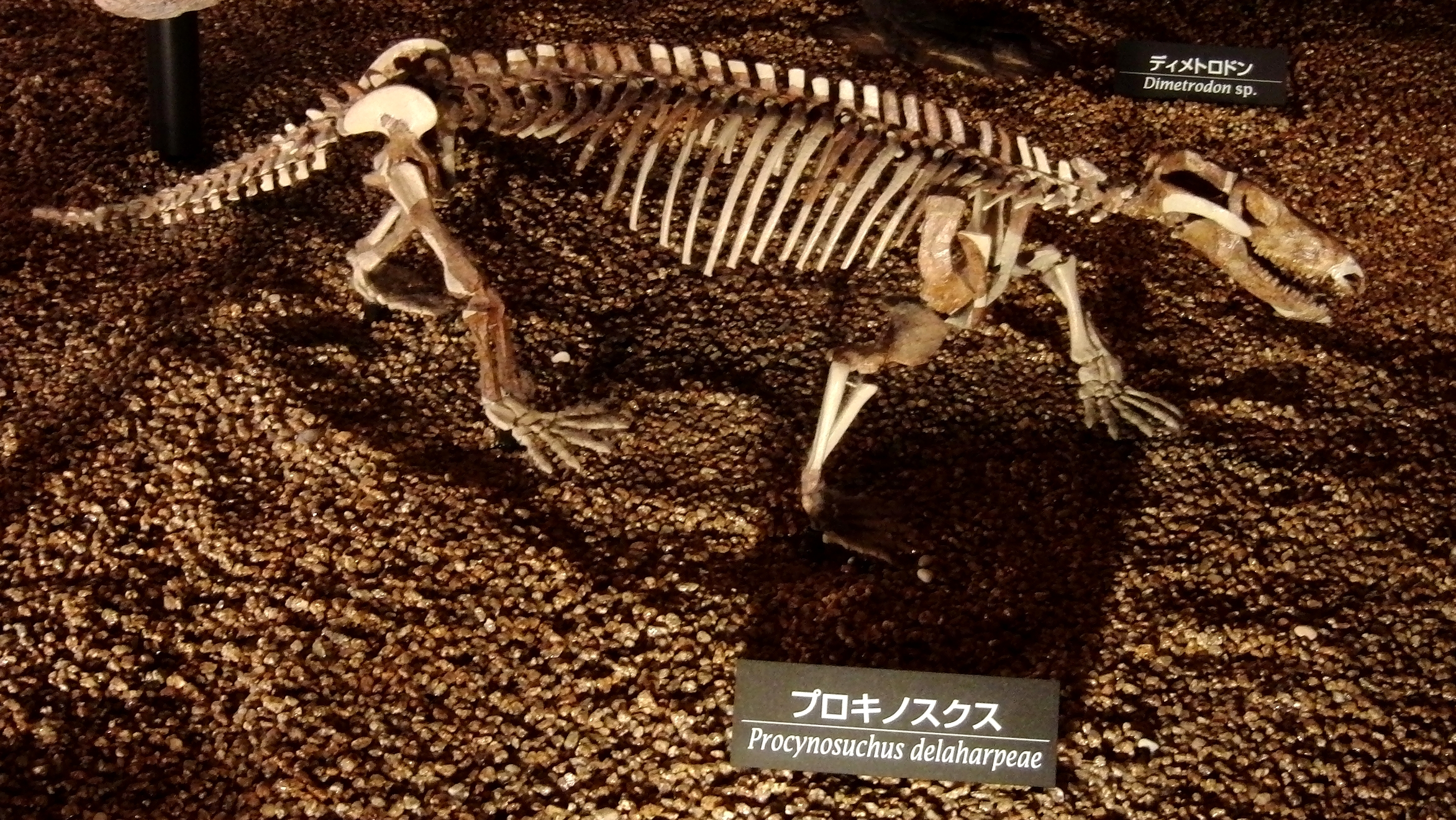 Skelton of Procynosuchus delaharpeae. Exhibit in the National Museum of Nature and Science, Tokyo, Japan.